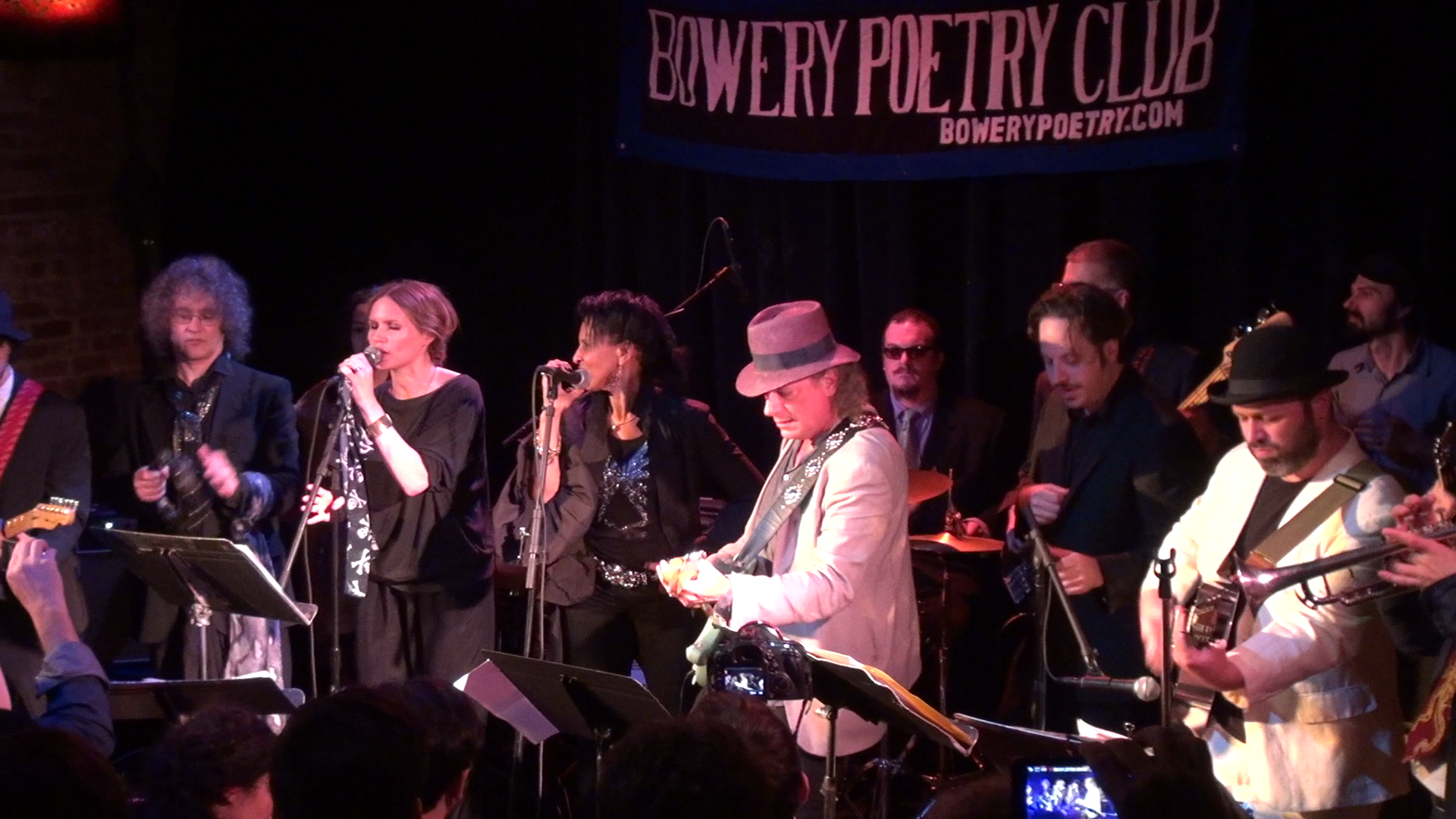 Gary Lucas, Nina Persson, Nona Hendrix, and others performing at the Bowery Poetry Club as part of the Captain Beefheard tribute Best Batch Yet.